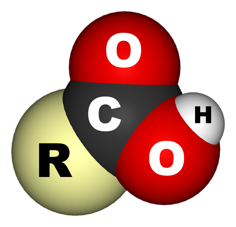 Carboxyl-3D-space-filling-labelled